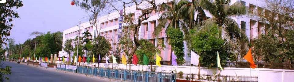 Main academic building